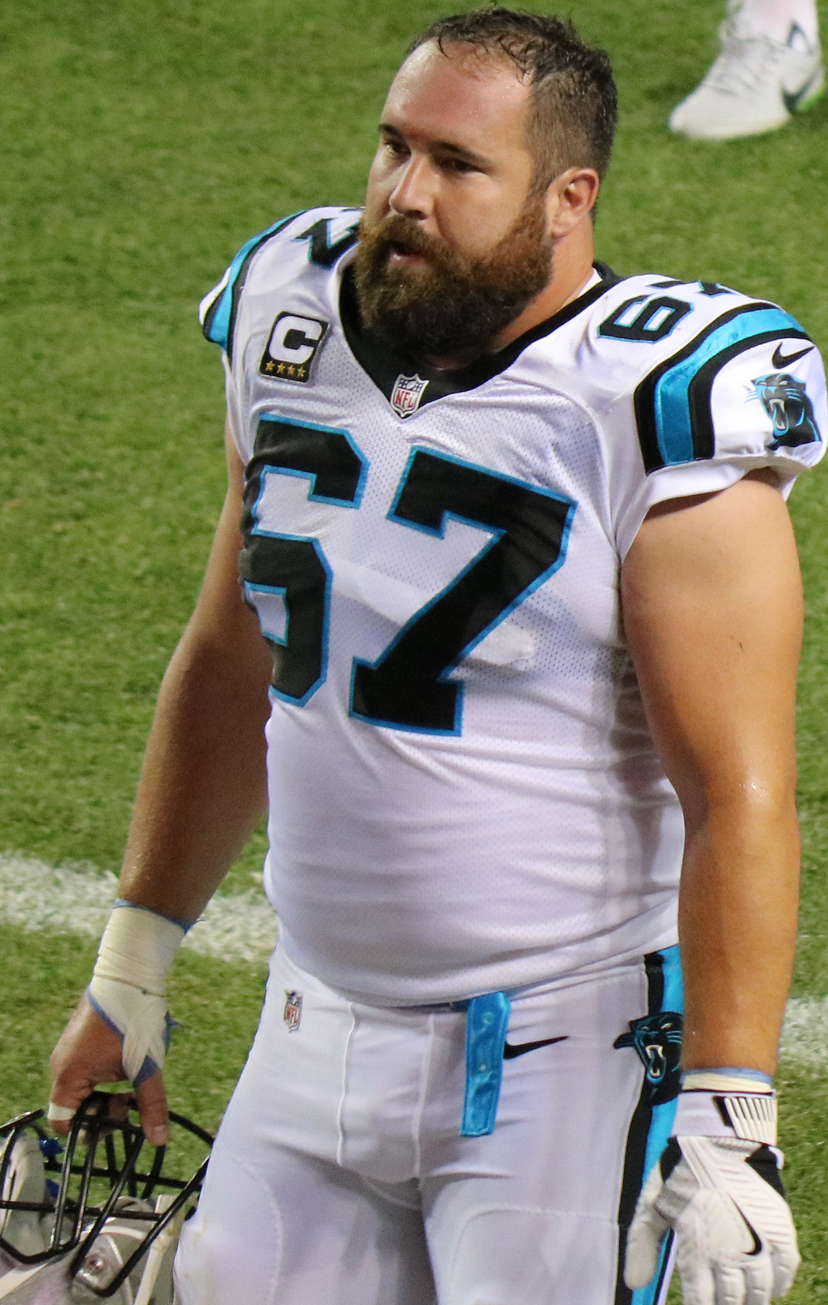 Ryan Kalil, a player on the National Football League.